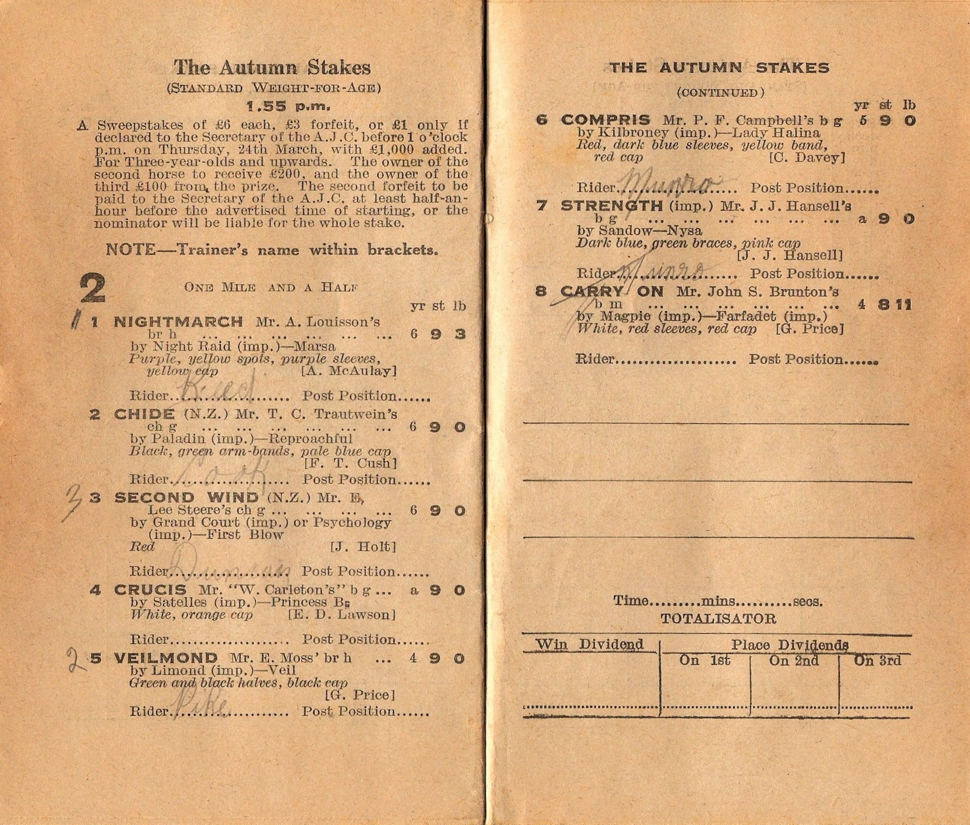 1932 AJC Autumn Stakes racebook scanned from original